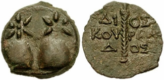 COLCHIS. Dioscurias. Late 2nd Century BC. Æ 15mm (2.06 gm). Two pilei surmounted by stars / Thyrsos, ΔΙΟΣ ΚΟΥΡΙΑ ΔΟΣ